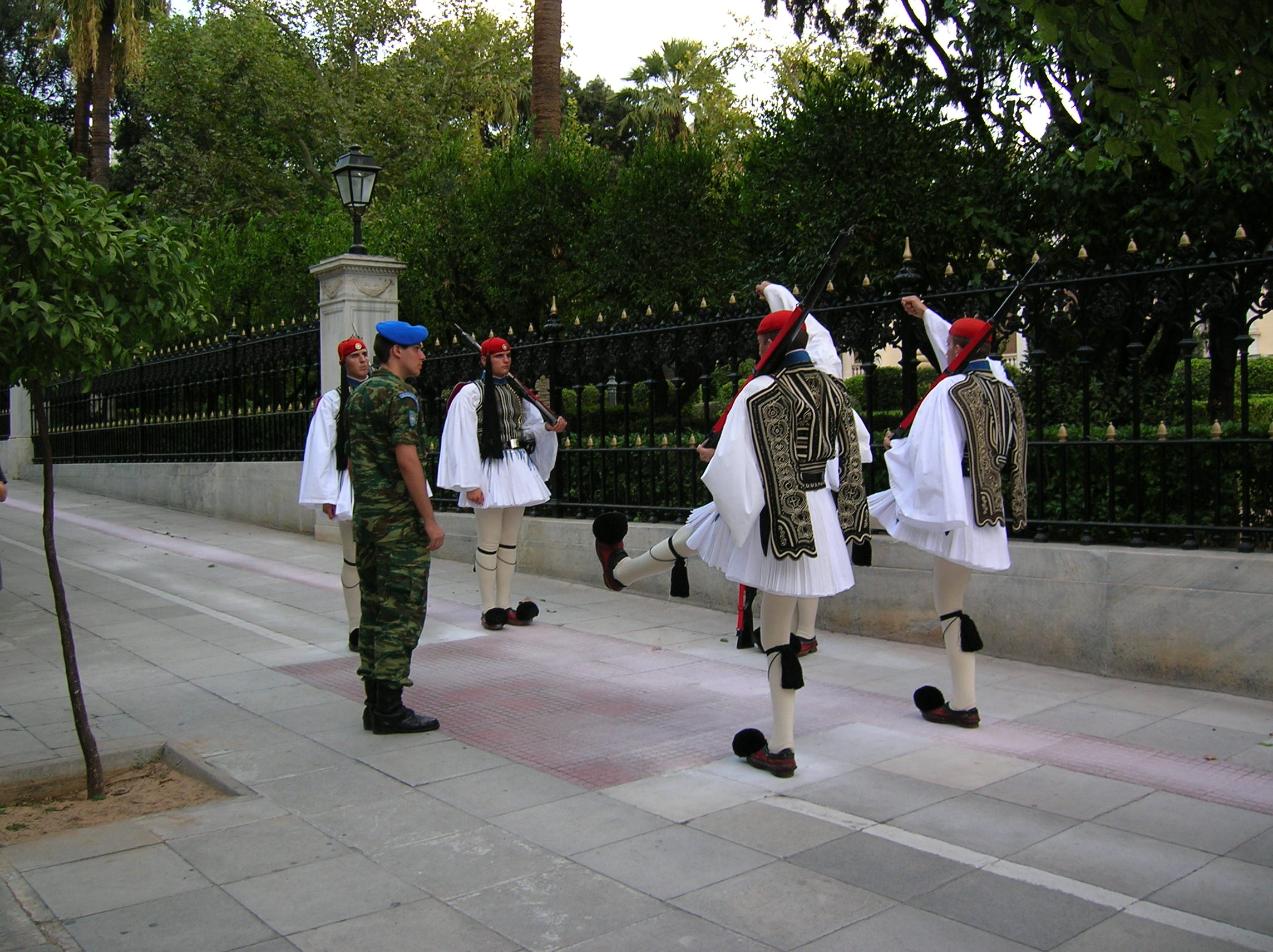 Evzone guards changing the guard in front of the Presidential Palace, Athens, Greece.